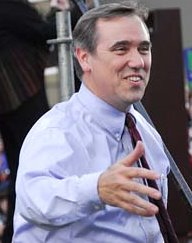 Jeff Merkley